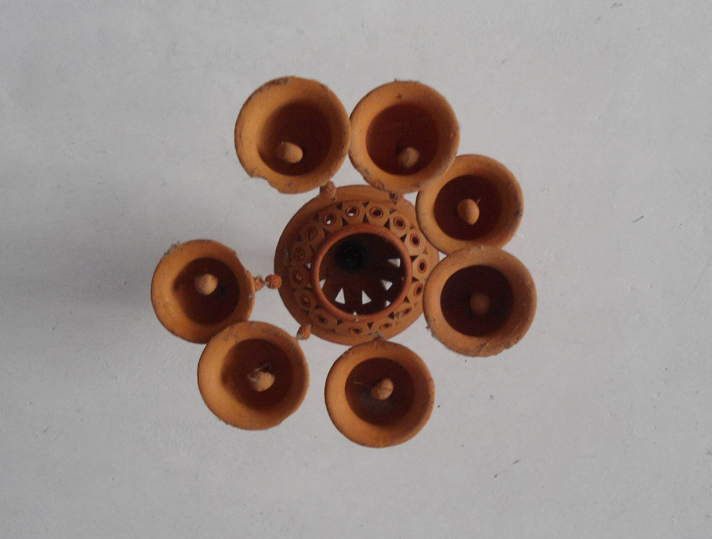 Wind bells at Shilparamam Jaatara Stalls, Madhurawada, Visakhapatnam